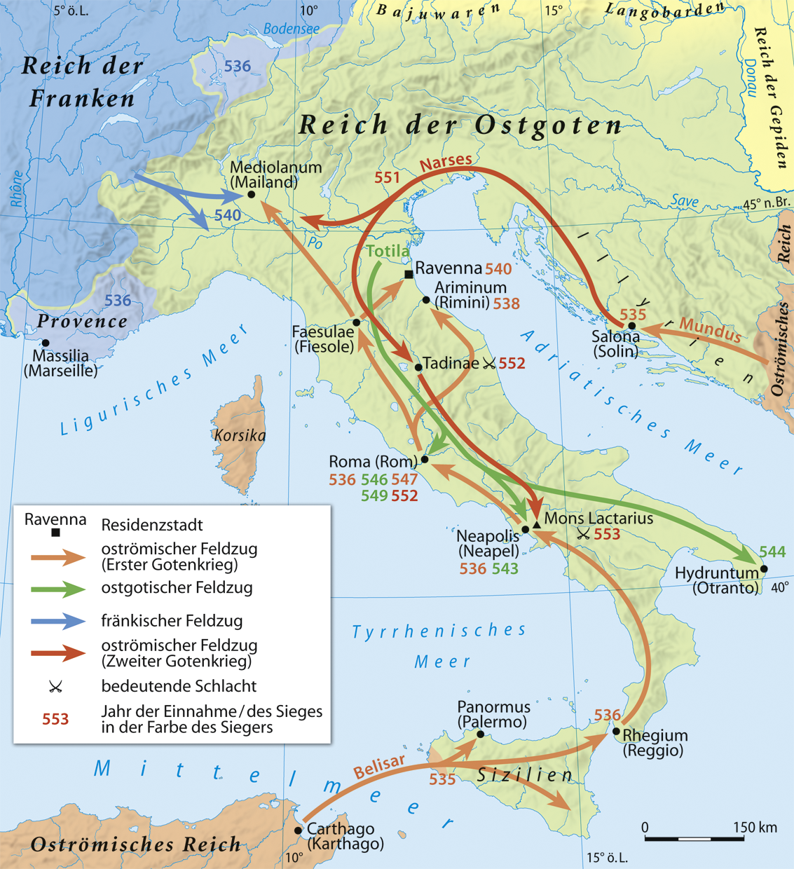 Gothic War (535-554), German version